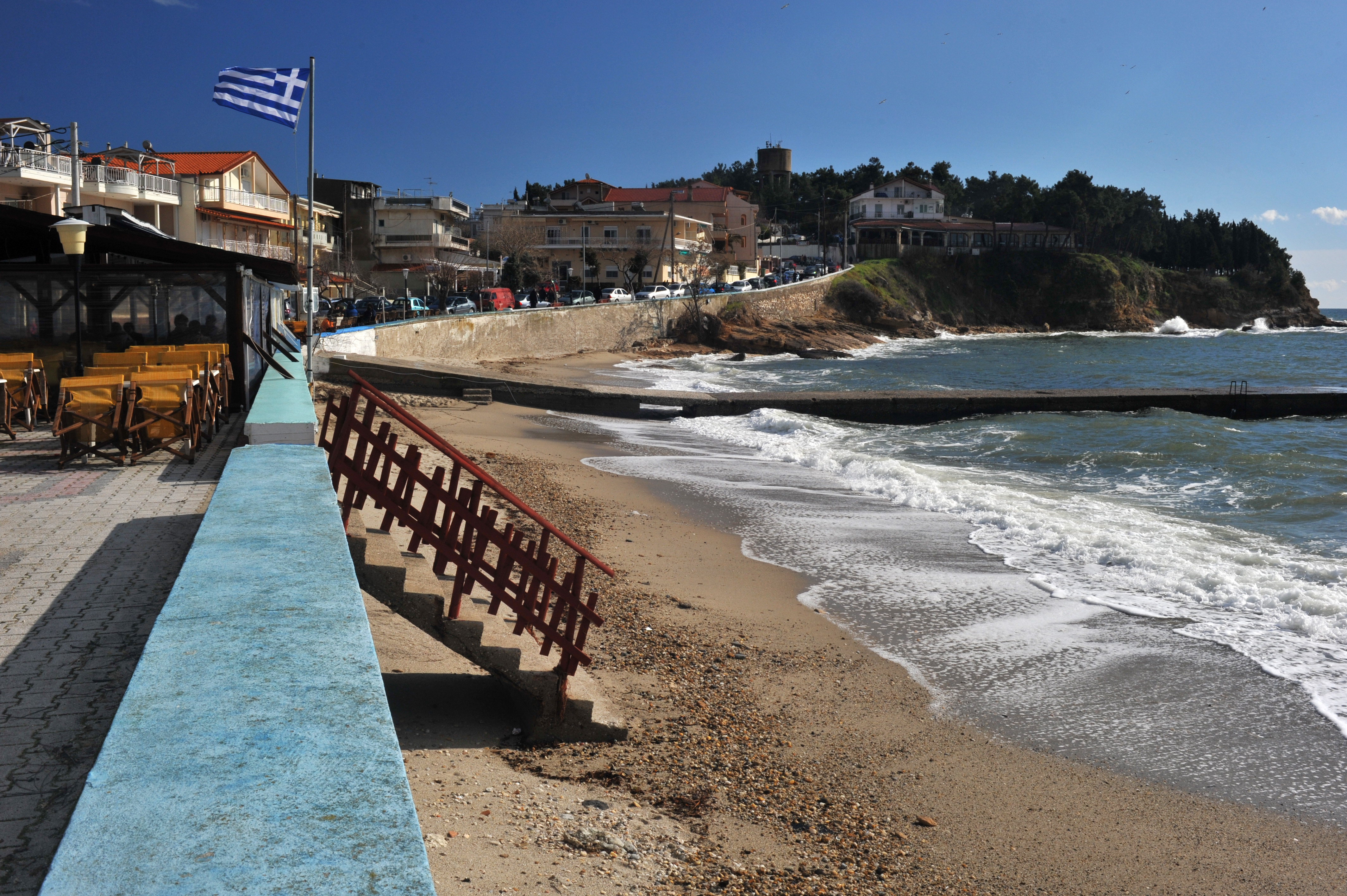 Village of Fanari, Rhodope Prefecture, Thrace, Greece.